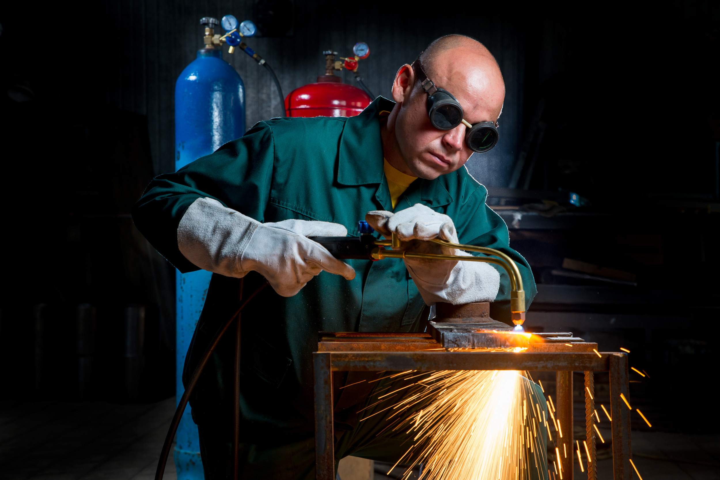 Oxy-fuel cutting. Cutting torch R1 "DONMET" 142 P